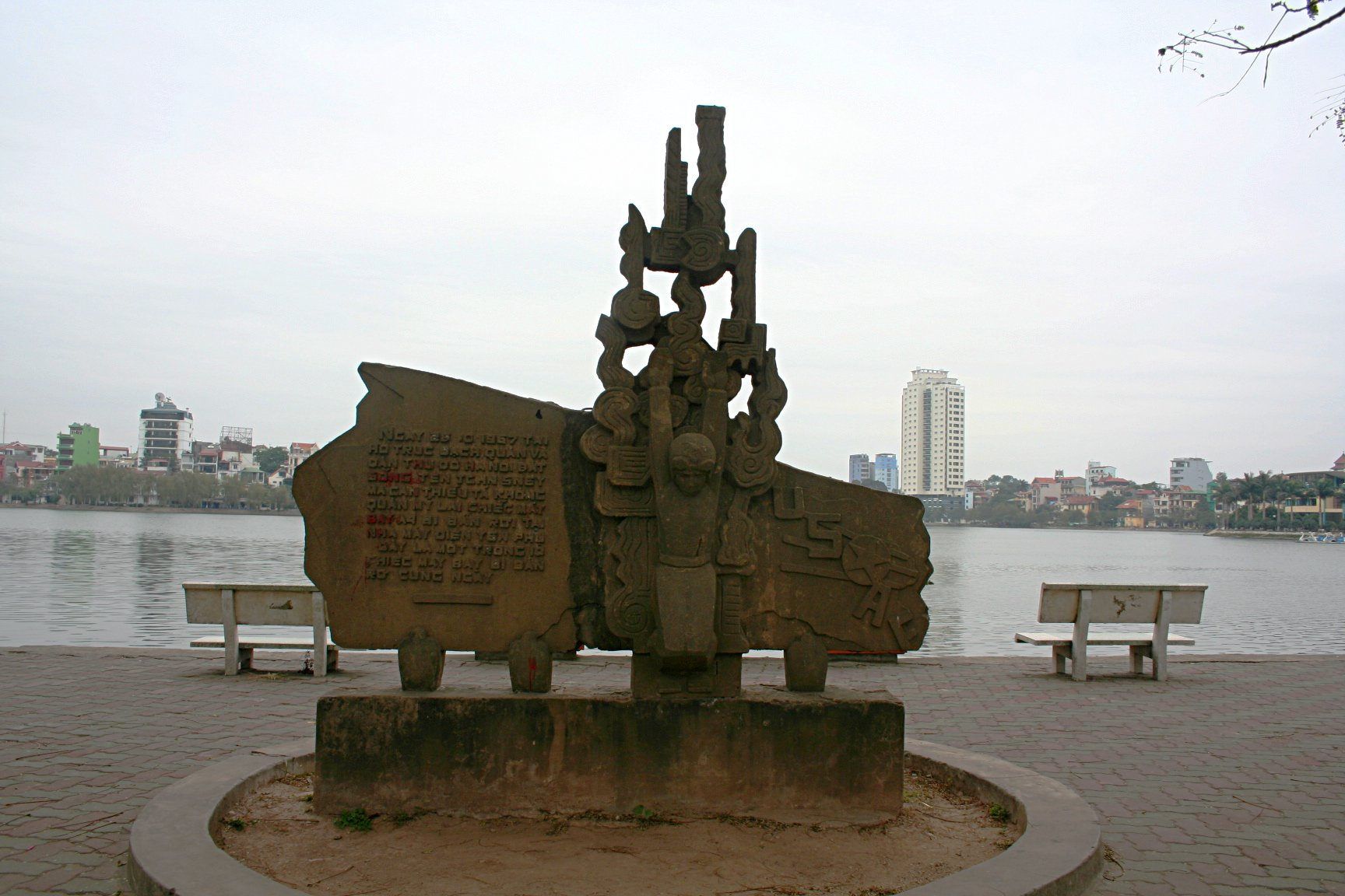 Photograph of the monument commemorating the capture of John McCain on the west shore of Truc Bach Lake in Hanoi, Vietnam.